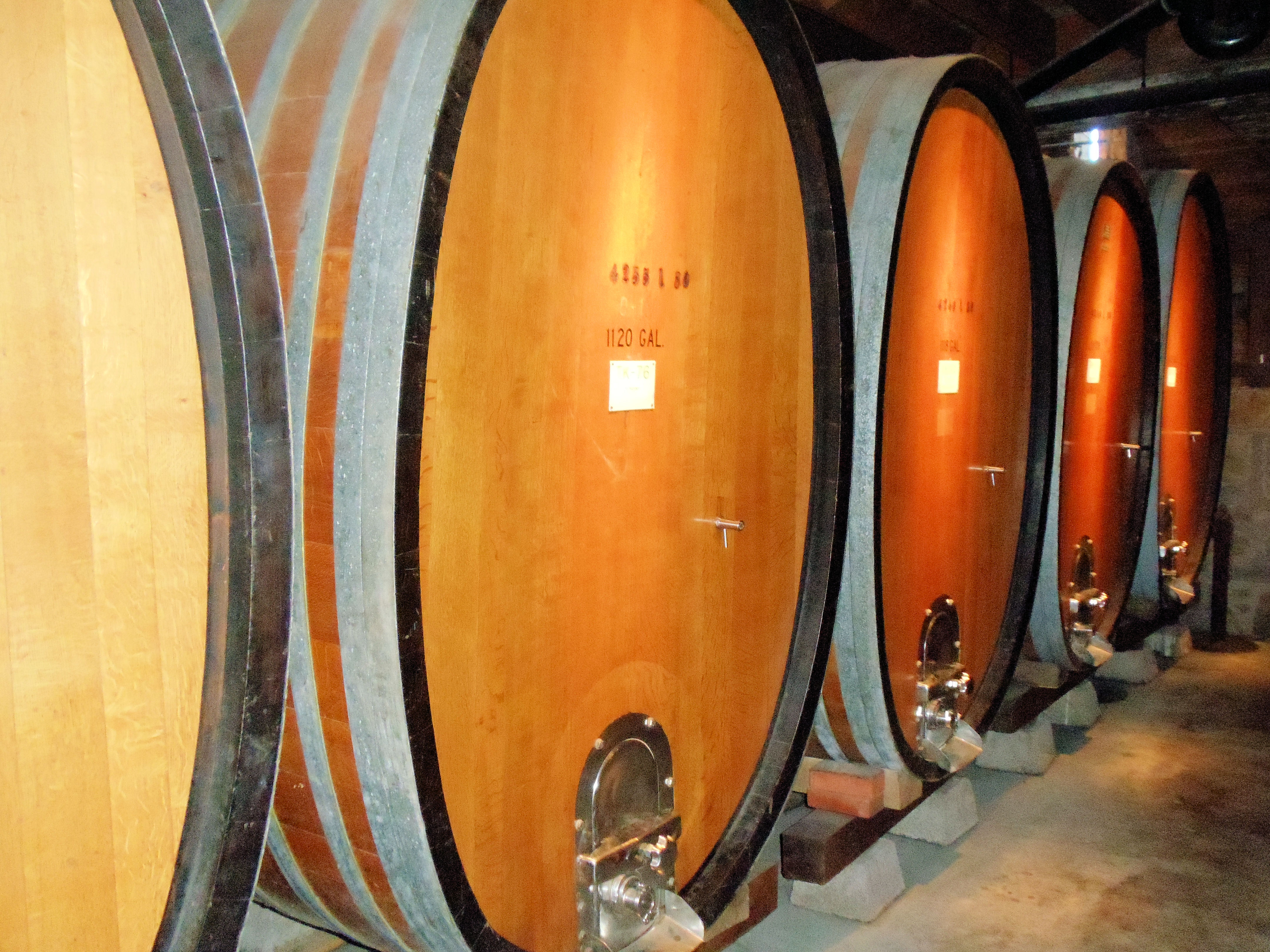 V Sattui Winery, St. Helena, California, USA